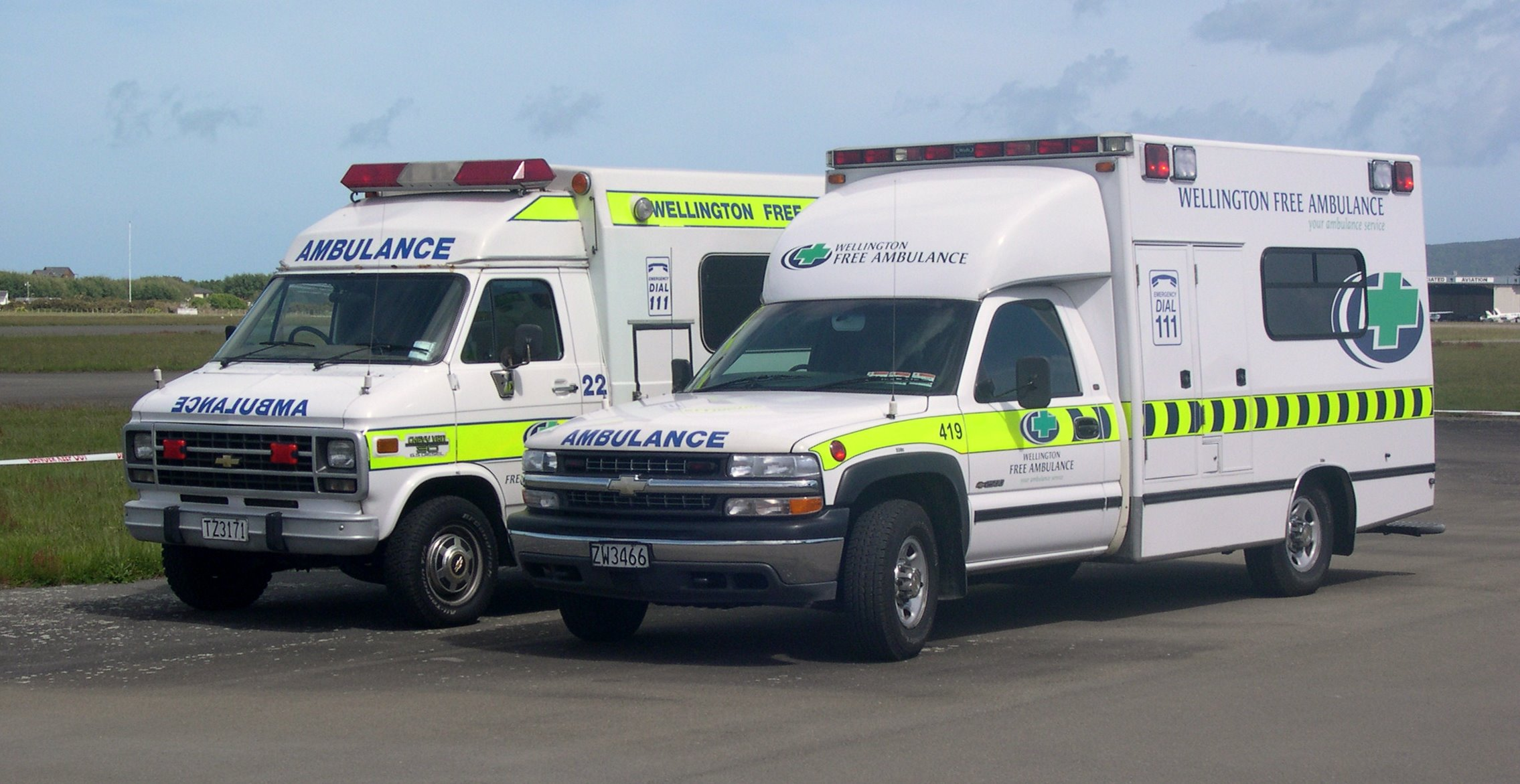 More photos at